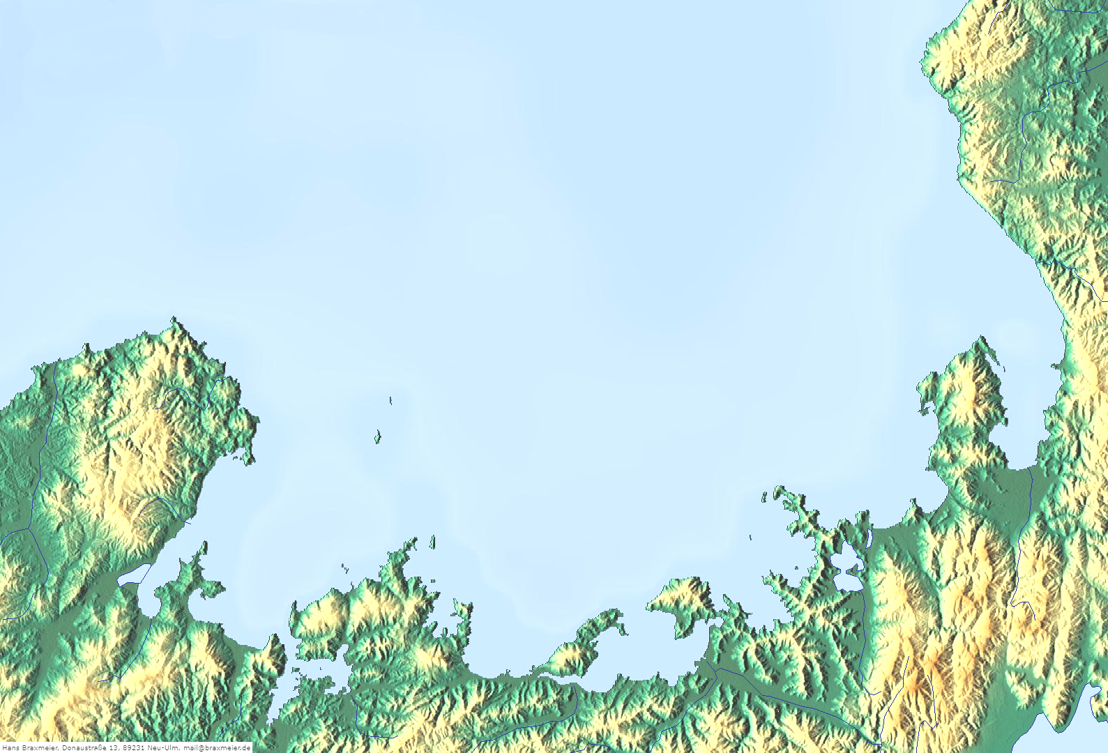 Topographic map of Wakasa Bay